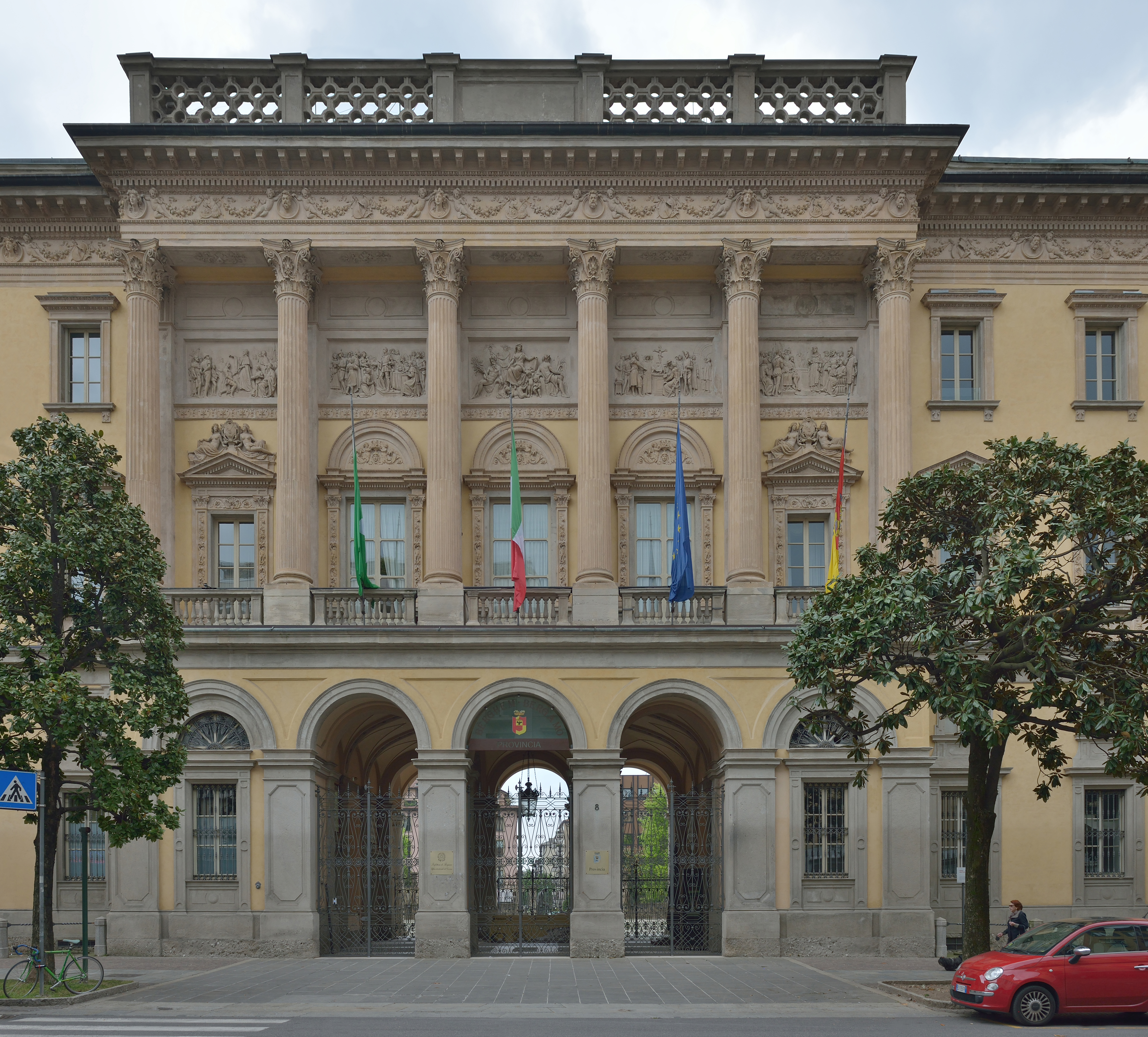 Palace of the Province of Bergamo